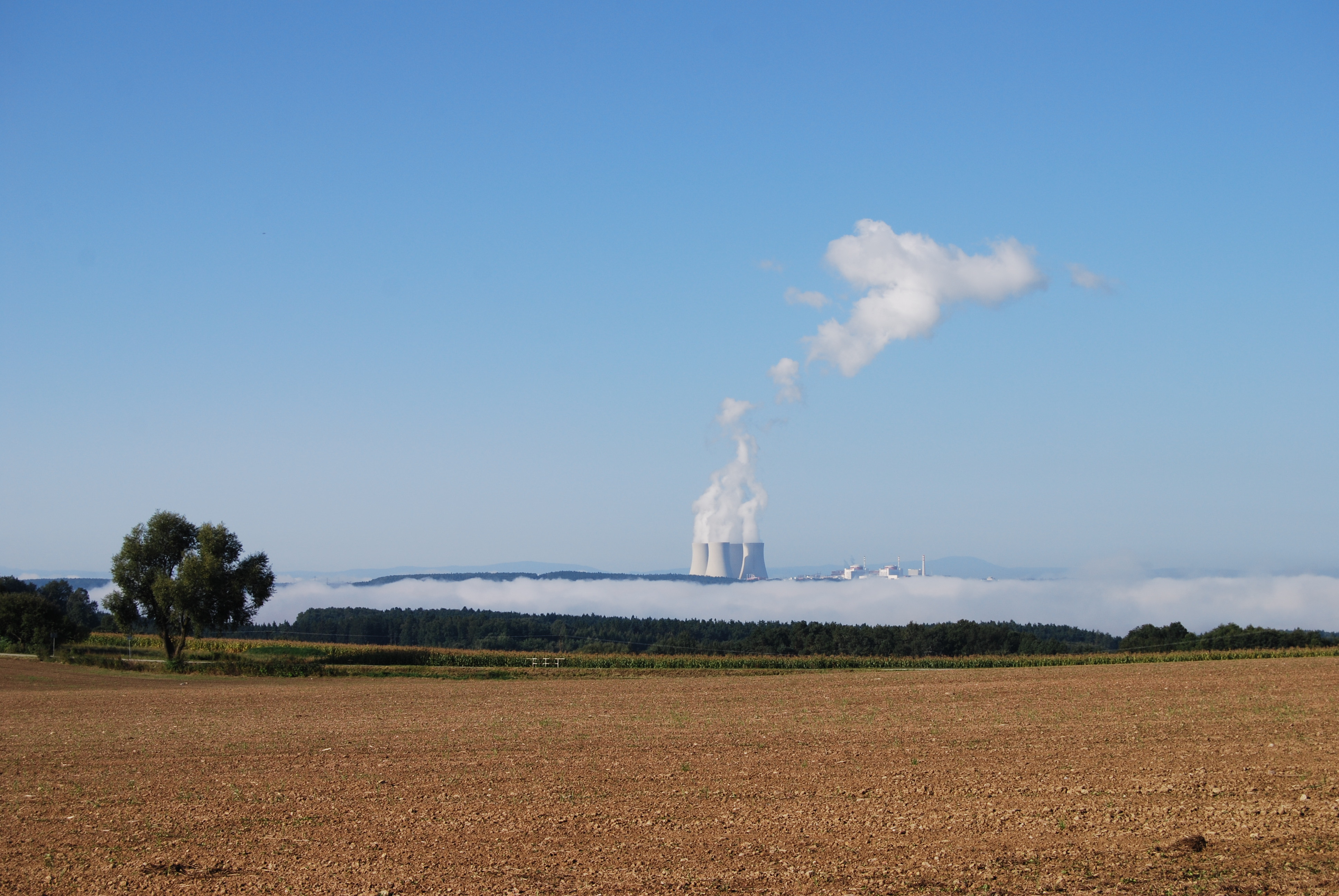 Temelín Nuclear Power Station near Temelín village in the Czech Republic